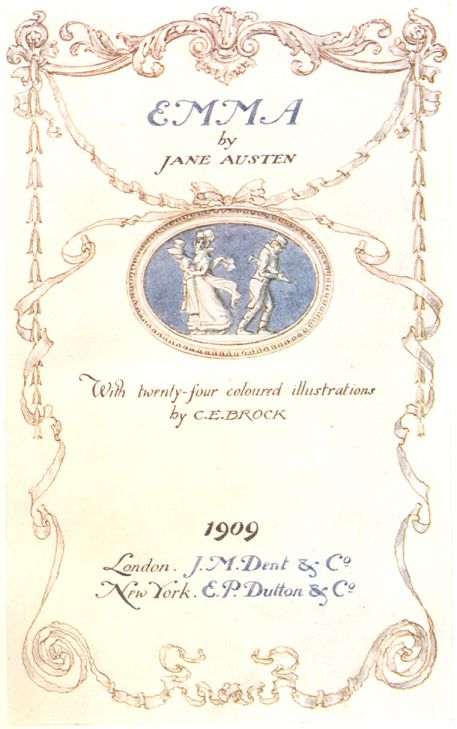 Source: Linked from Molland's Circulating Library Image URL